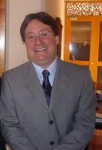 Image depicting Vice President of Colombia Francico Santos Calderon. Image in the Public Domain work of a US Government - US Embassy in Bogota, Colombia.[1]